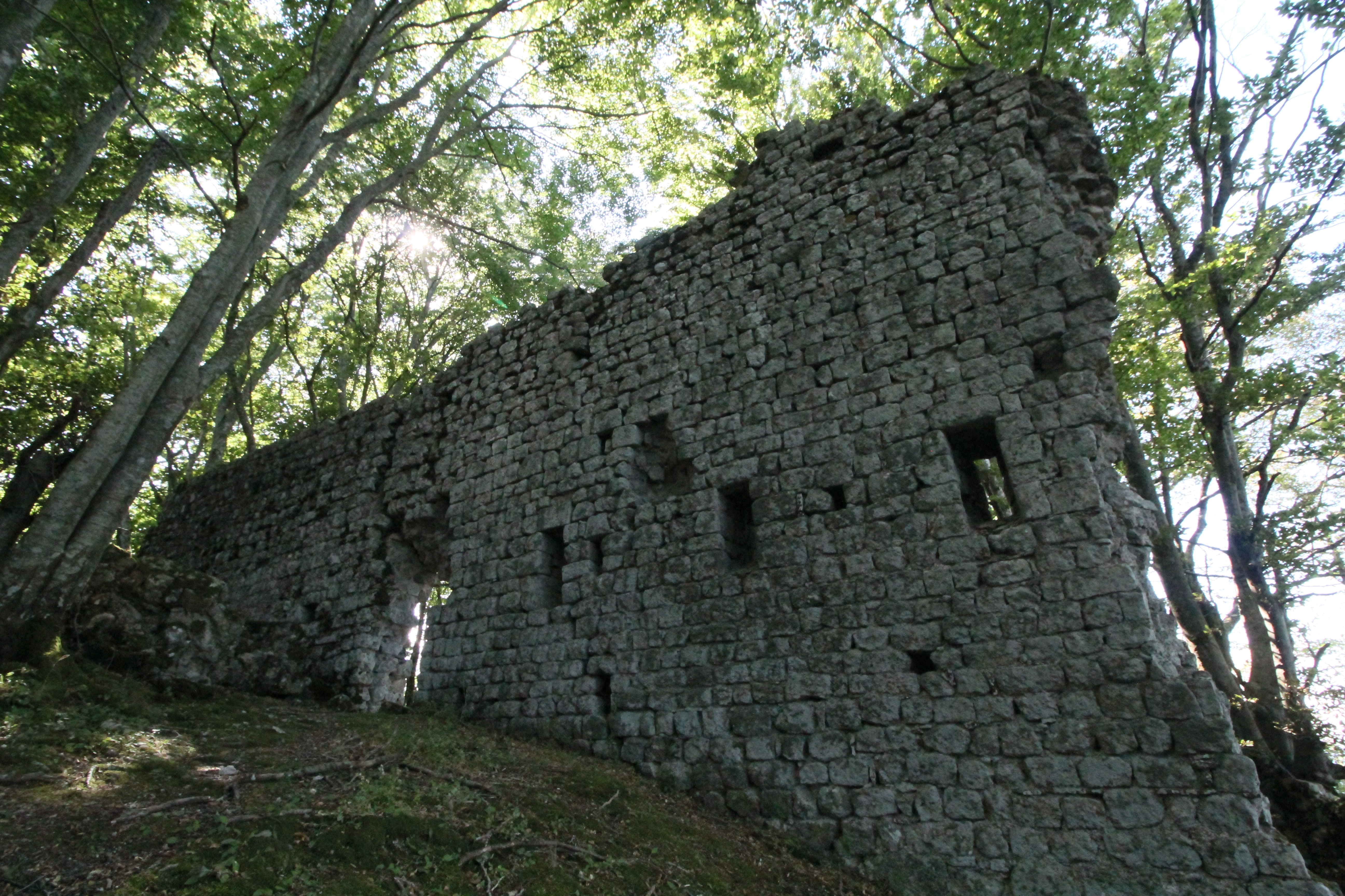 Castle Ruin Castello di Sassoforte, on the Mountain Sassoforte, near the Village of Sassofortino, hamlet of Roccastrada, Maremma, Province of Grosseto, Tuscany, Italy